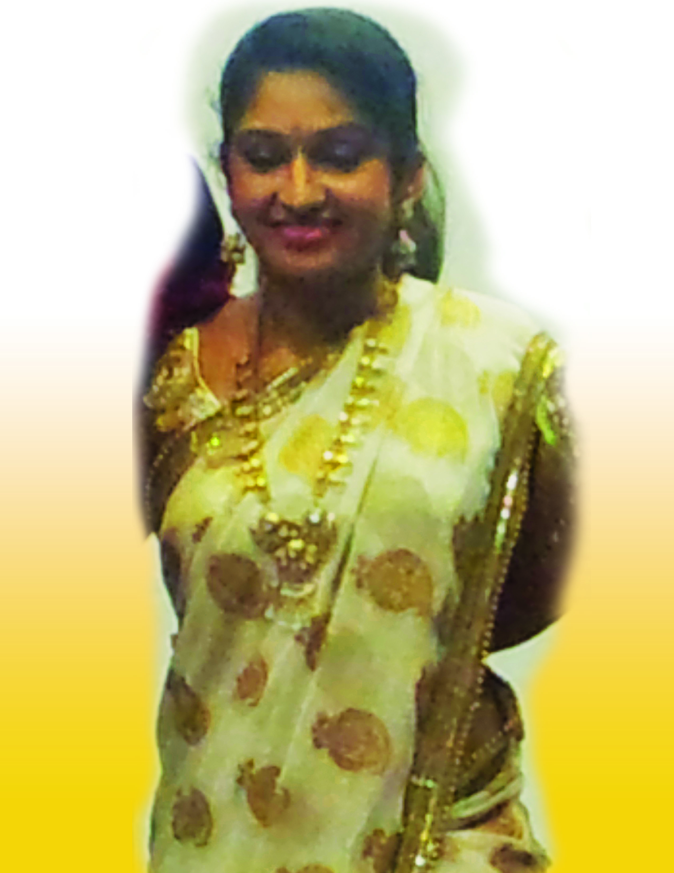 Mithra at The American Thriller Express Show